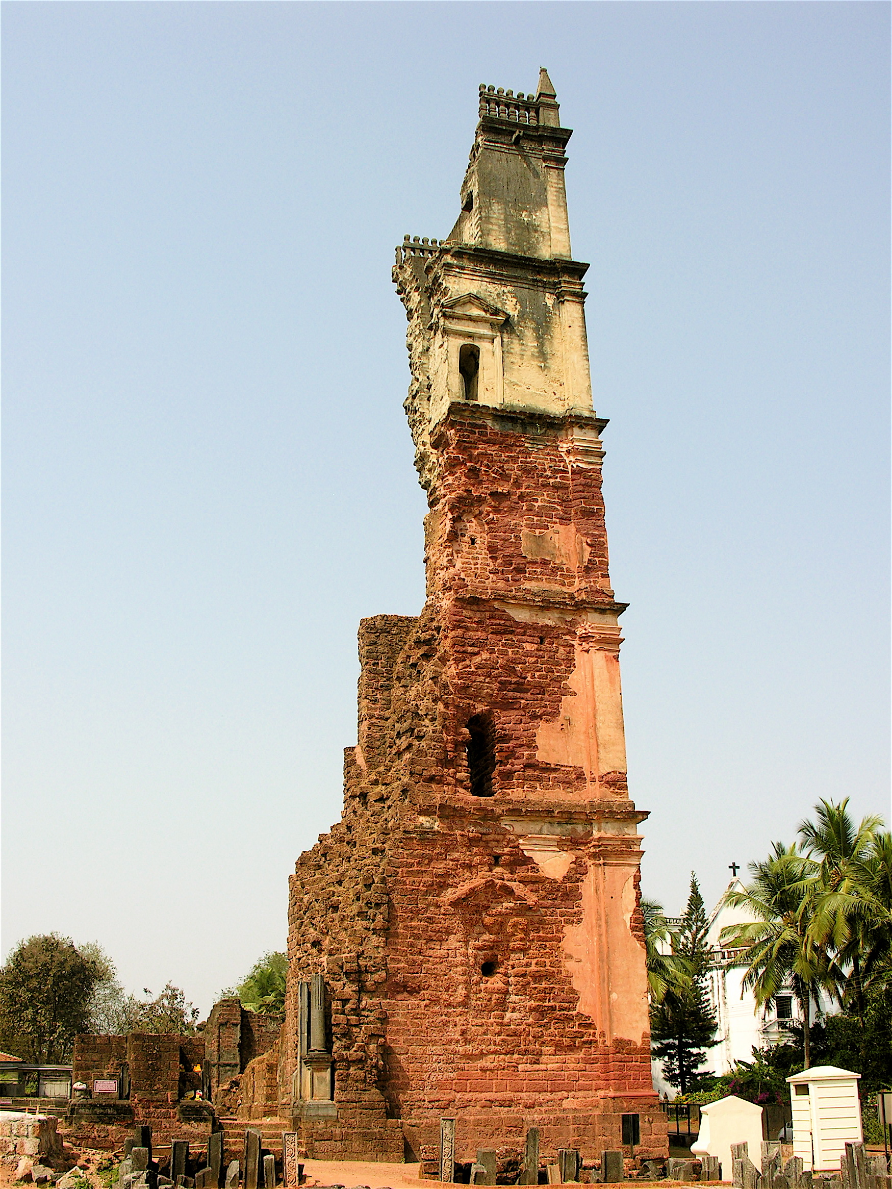 Ruins of the Church of St Augustine. Constructed in 1602 by Augustinian friars who arrived at Old Goa in 1587.